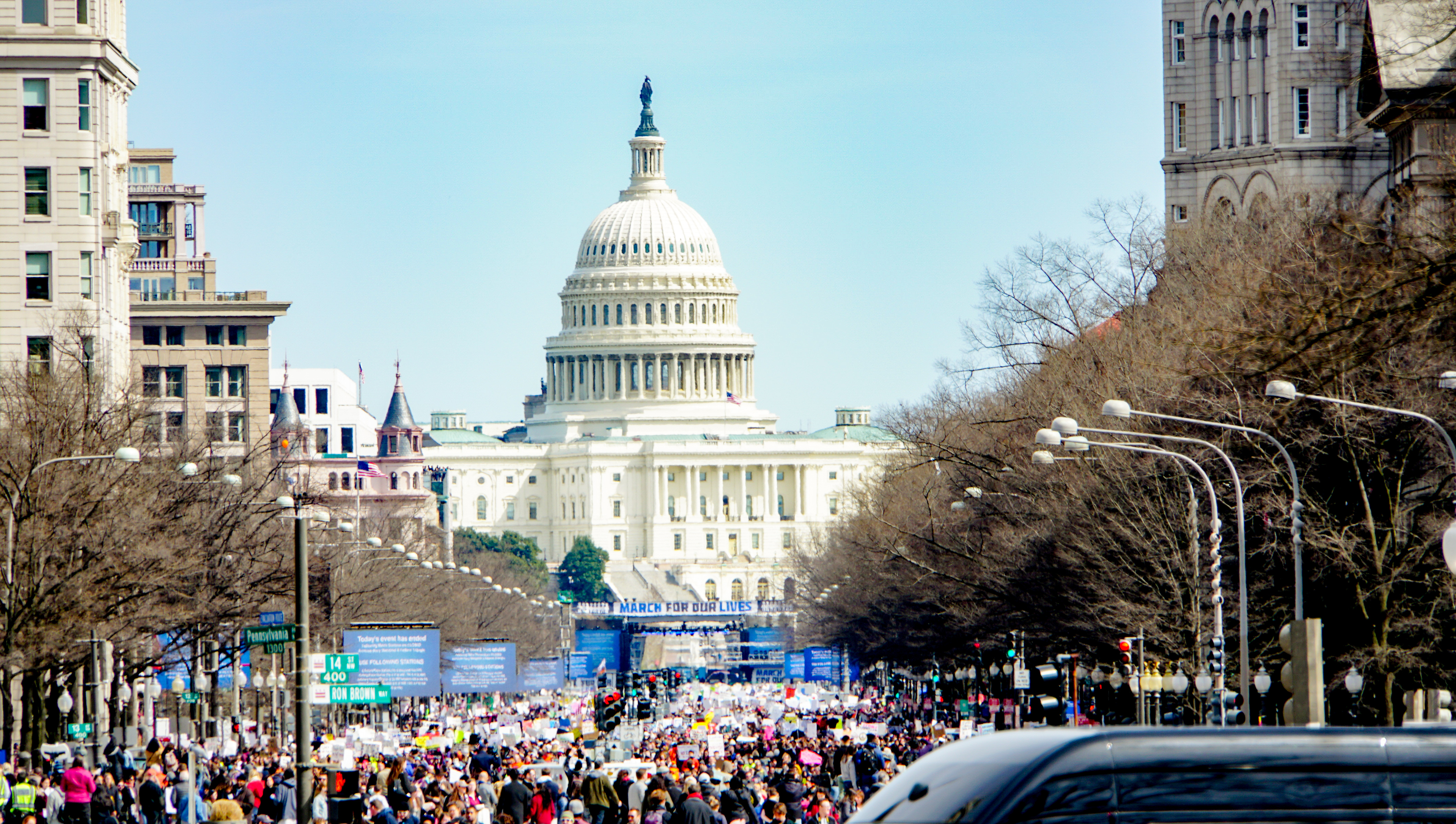 2018.03.24 March for Our Lives, Washington, DC USA 2-7